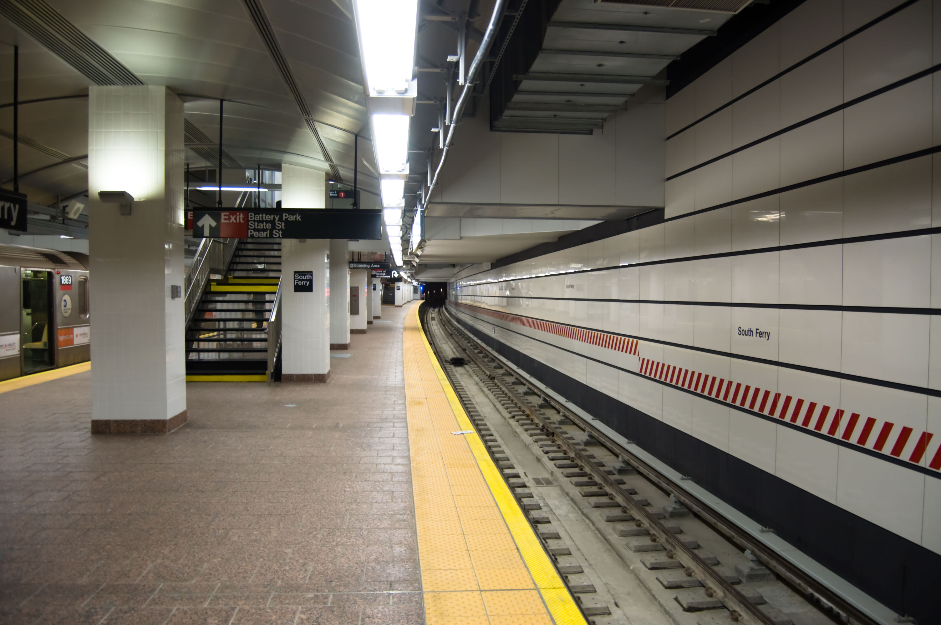 The platform at the new South Ferry subway terminal in Lower Manhattan.